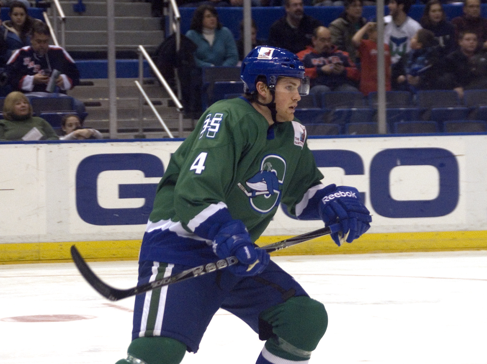 ERI_3284 Providence Bruins vs Connecticut Whale in American Hockey League action at the XL Center in Hartford, Connecticut. This photo was taken by Sarah Connors on January 15, 2011 using a Nikon D200. This photo also appears in sarah_connors' Flickr photostream, and is one of a set of 216 "Providence @ Whale, 1/15/11" Tags: Boston Bruins, Providence Bruins, New York Rangers, Connecticut Whale, NHL, AHL, XL Center, hockey, icehockey, Hartford Wolf Pack